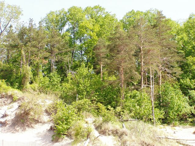 Alleged location of the Petit Fort, Indiana Dunes State Park, Porter, Indiana